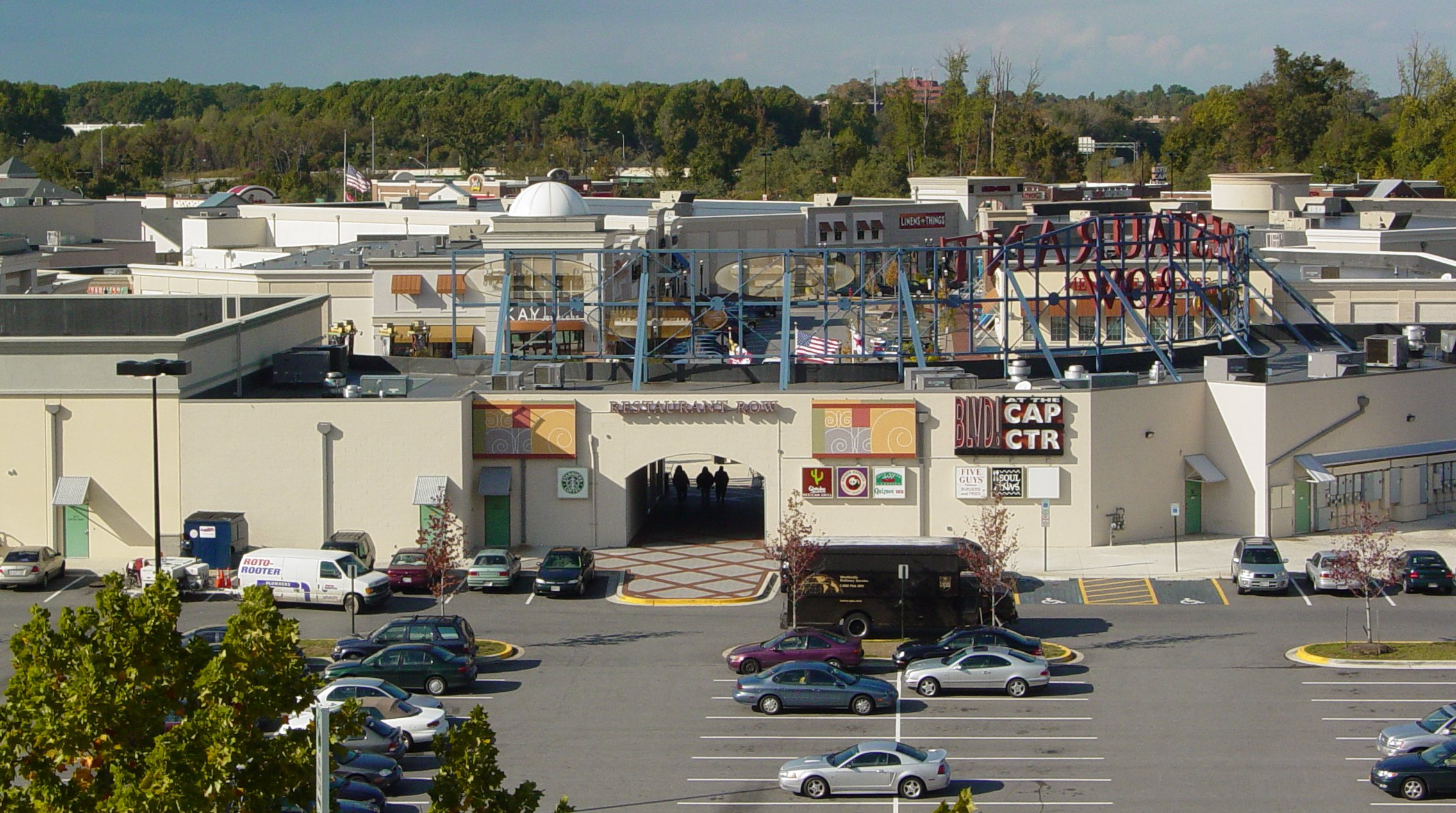 The Boulevard at the Capital Centre in Landover, Maryland, as seen from the parking garage of the Largo Town Center station of the Washington Metro. Photo by Ben Schumin on October 26, 2005.